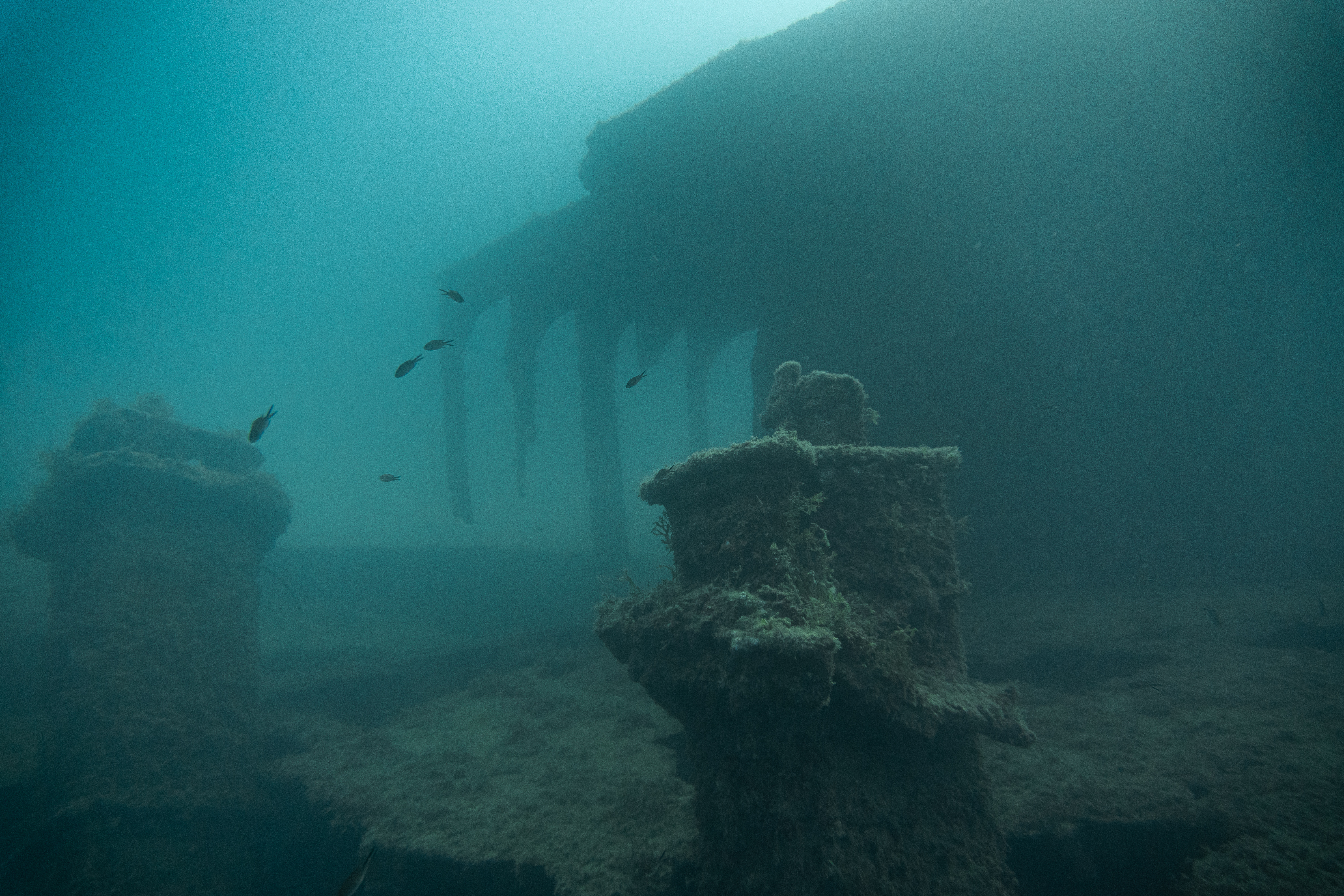 Freediving picture of the HMS Maori Wreck in the waters near Valletta. October 2019.